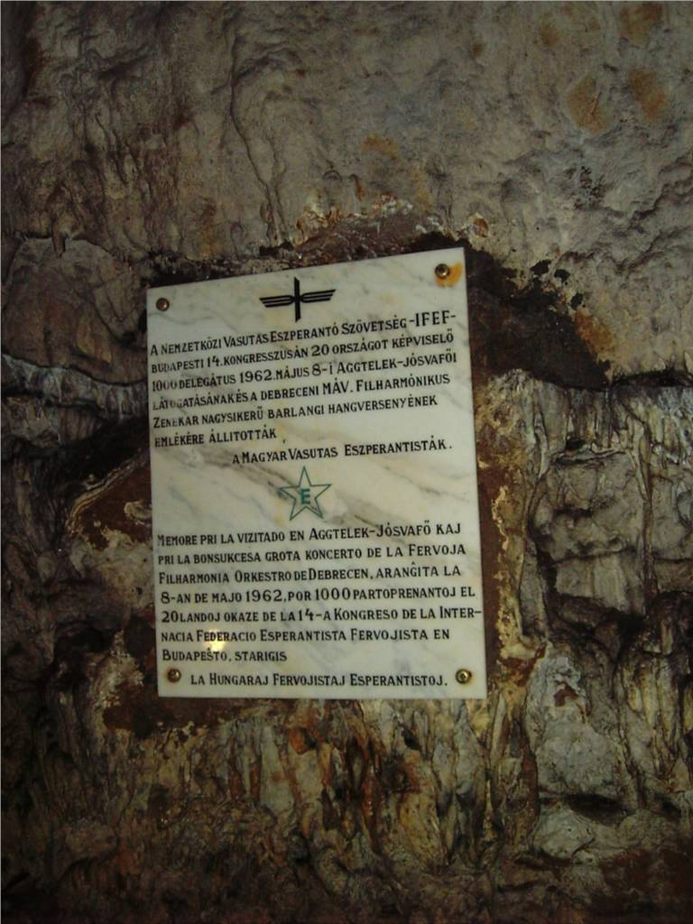 Esperanto plaque in the Baradla Cave, Hungary